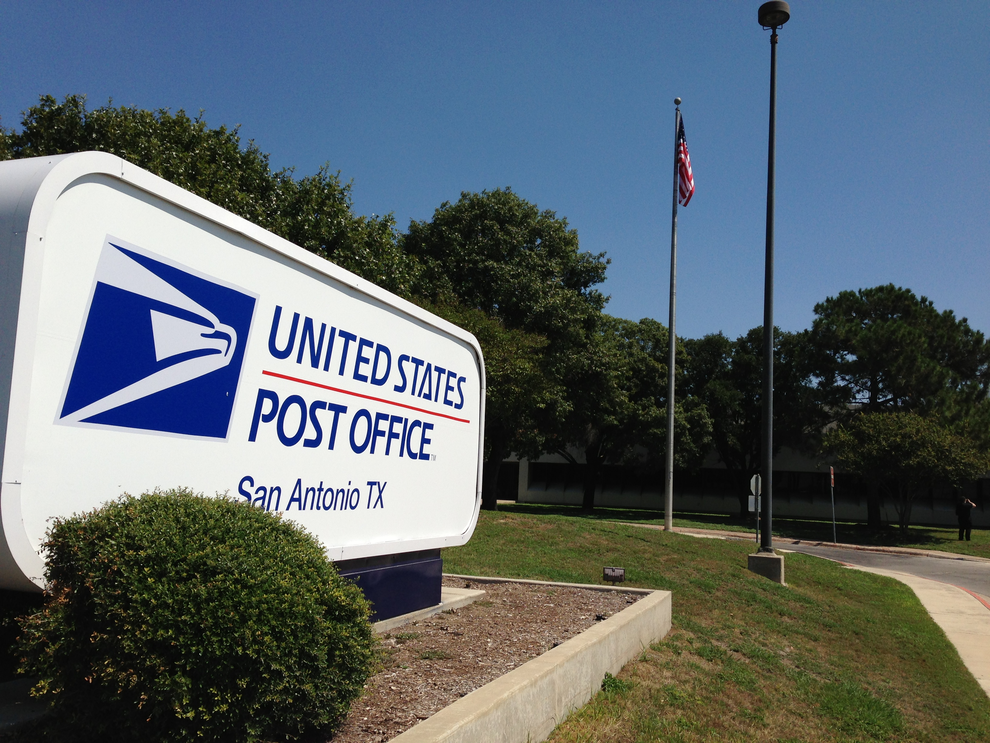 San Antonio Main Post office